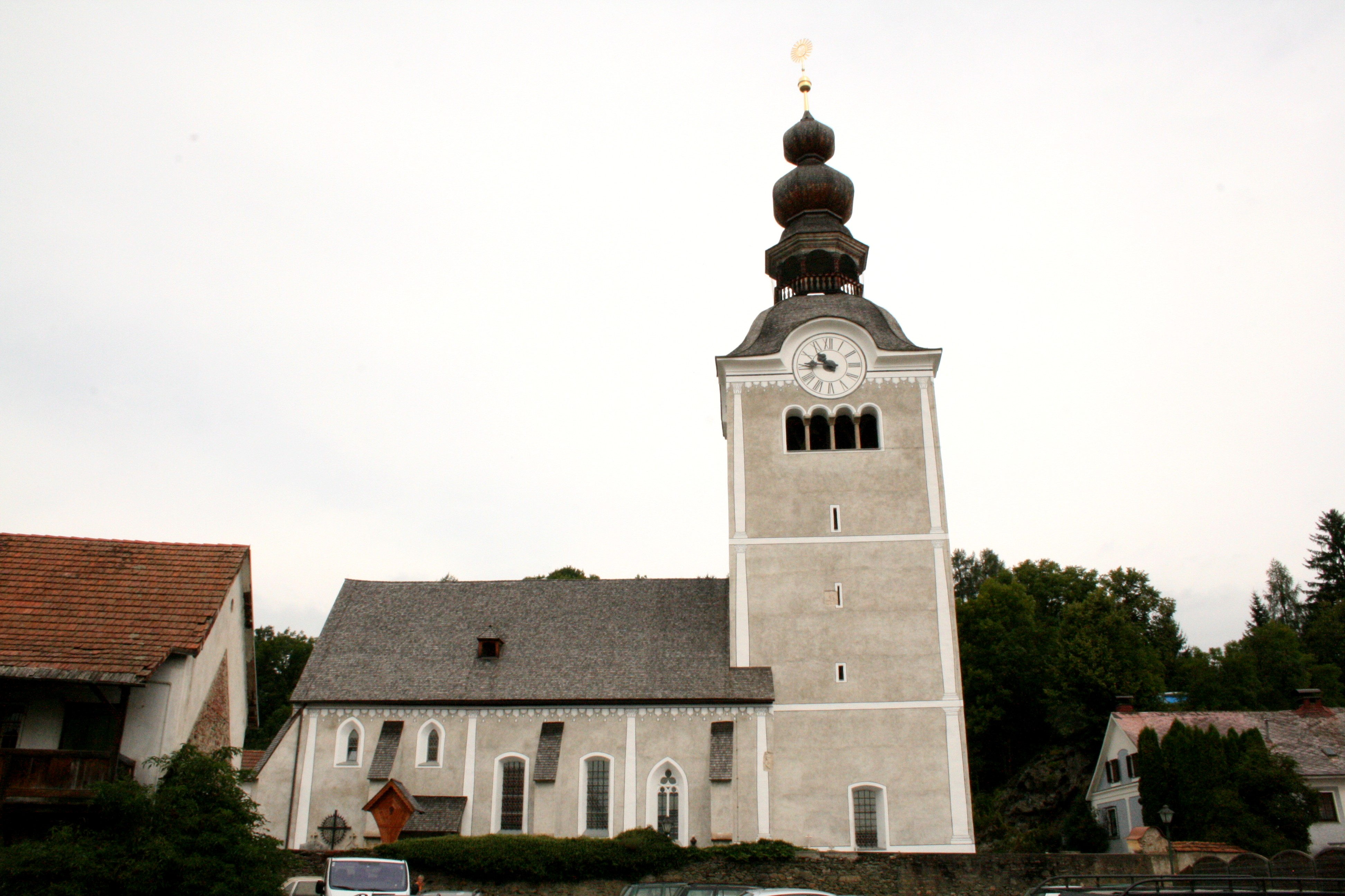 Sankt Marein bei Neumarkt in Styria, Austria, Europe